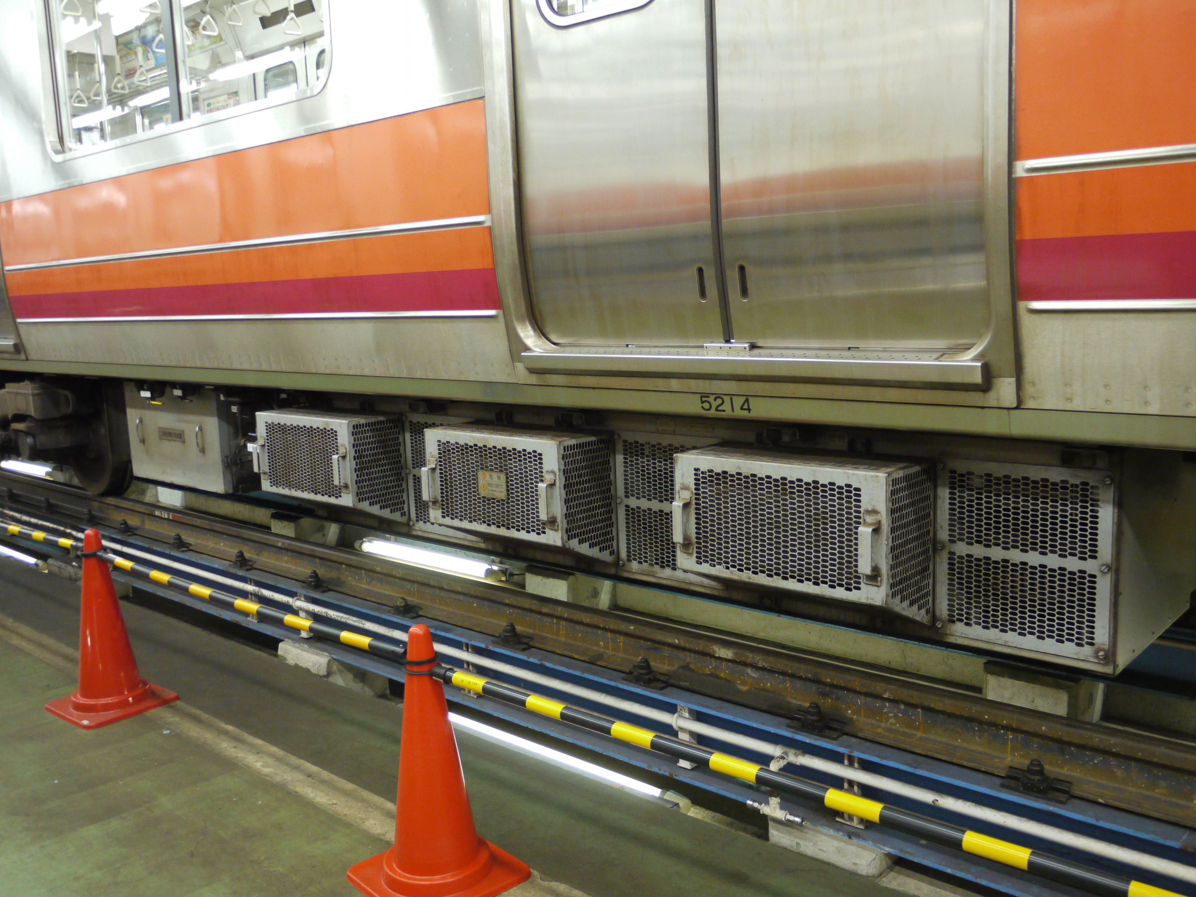 Inverter for Kyoto subway 50 series